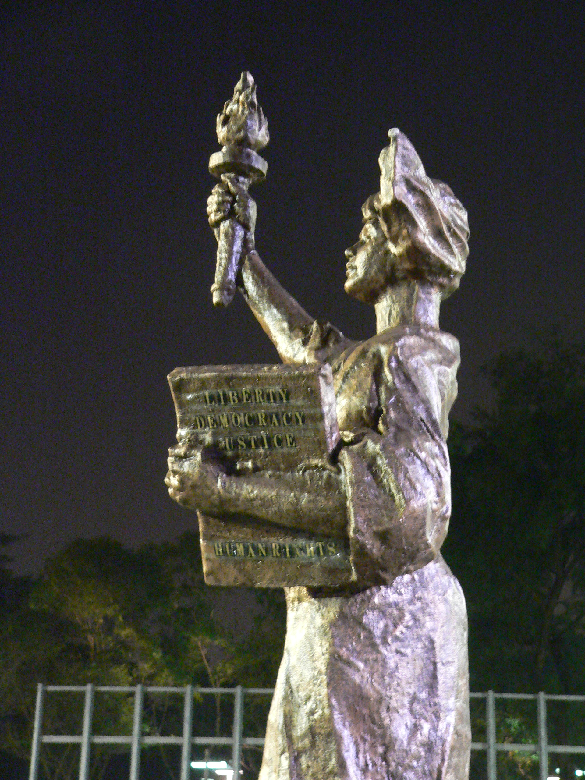 Profile picture of a replica of the statue "Goddess of Democracy" from the Tiananmen square protests in 1989. Photo taken in Victoria Park, Hong Kong, during the commemoration event for the 21st anniversary of the massacre. The statue now is sitting in The Chinese University of Hong Kong since 2010.